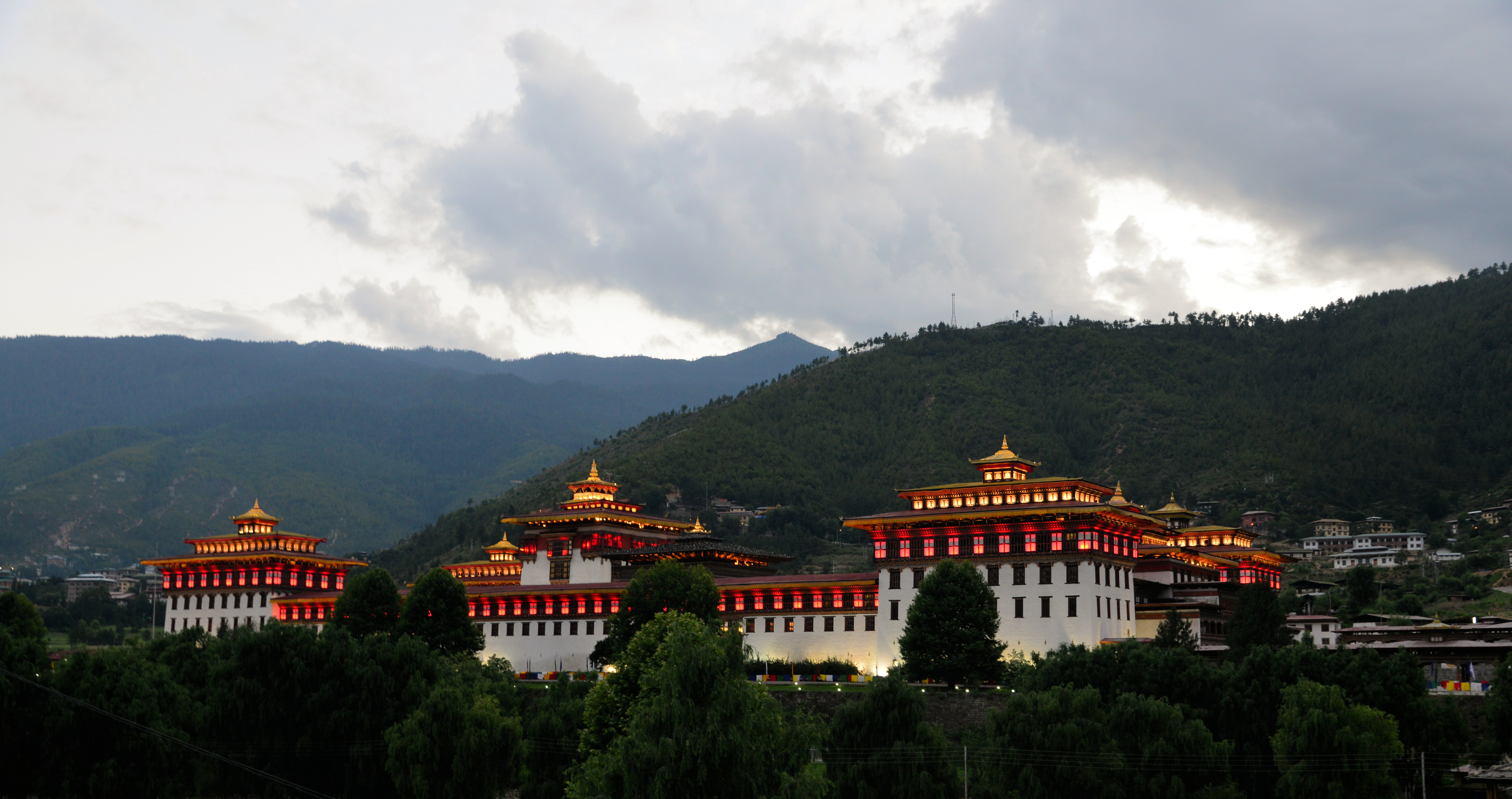 Tashi Chödzong at dusk from Lhanjopakha